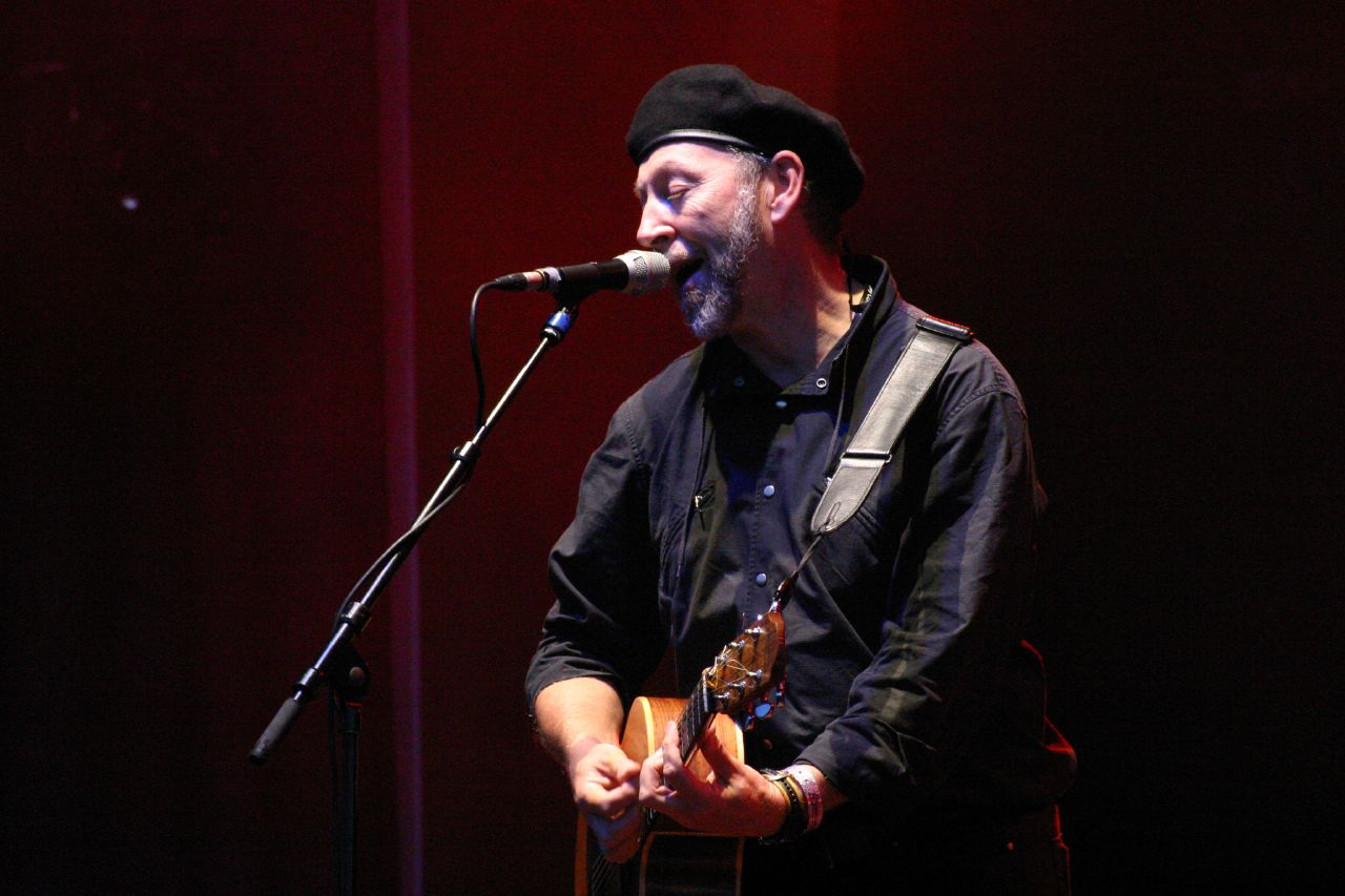 Richard Thompson in 2005